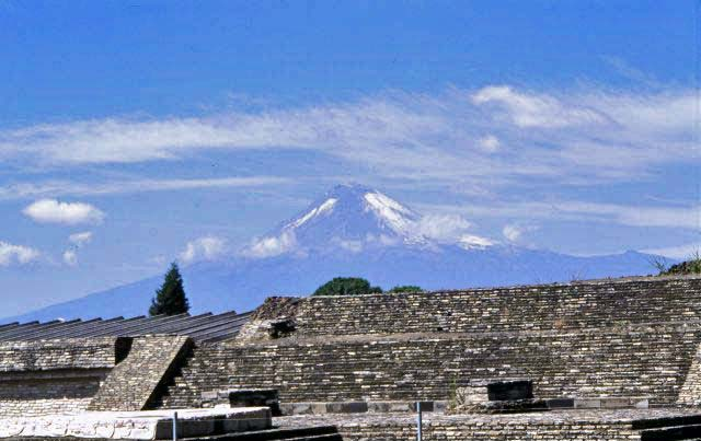 The Great Pyramid of Cholula and the Popocatépetl in the background.